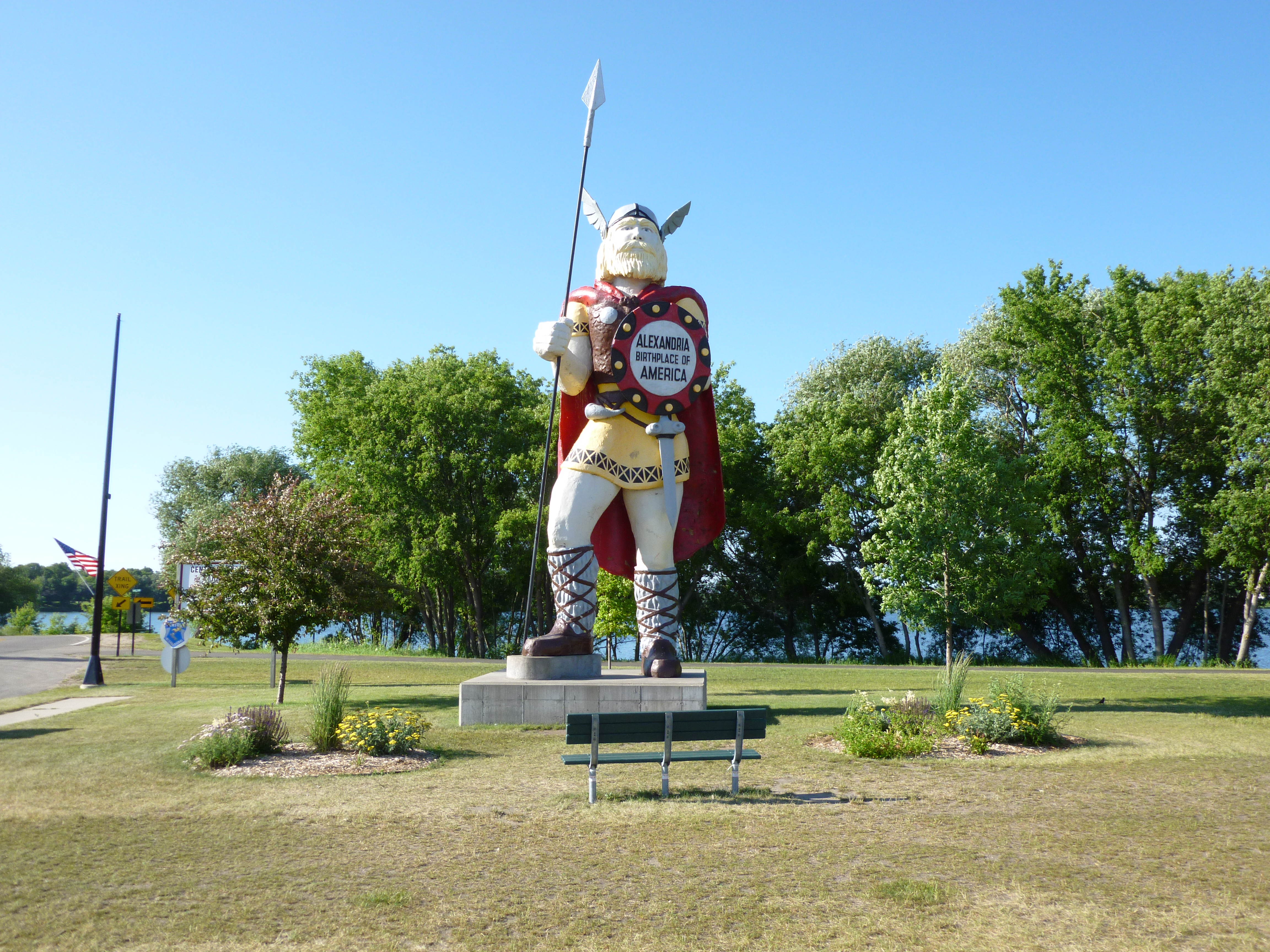 Big Ole on Alexandria, Minnesota